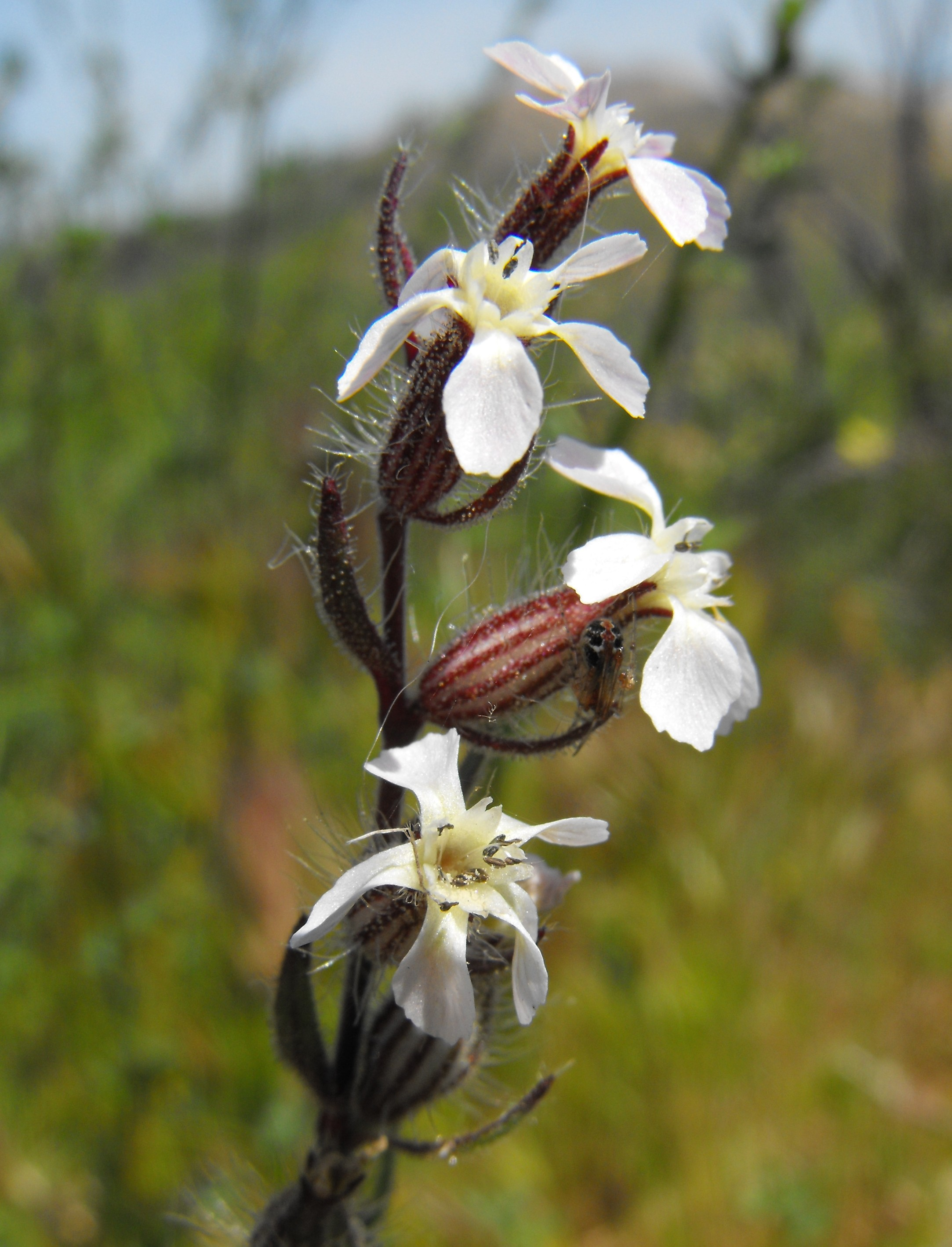 Silene gallica at Lake Poway, Poway, California, USA.